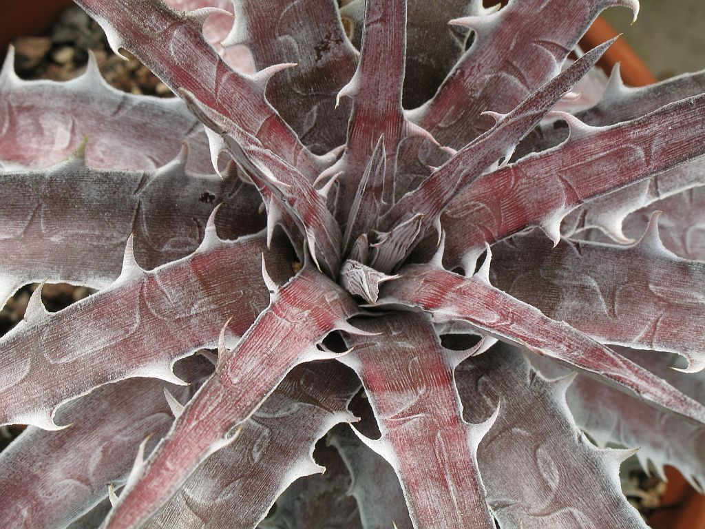 Dyckia goehringii, in cultivation at the Botanical Garden of Heidelberg, Germany.